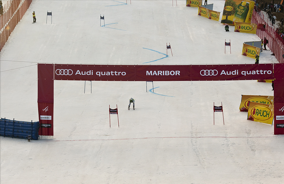 Zlata lisica 2011